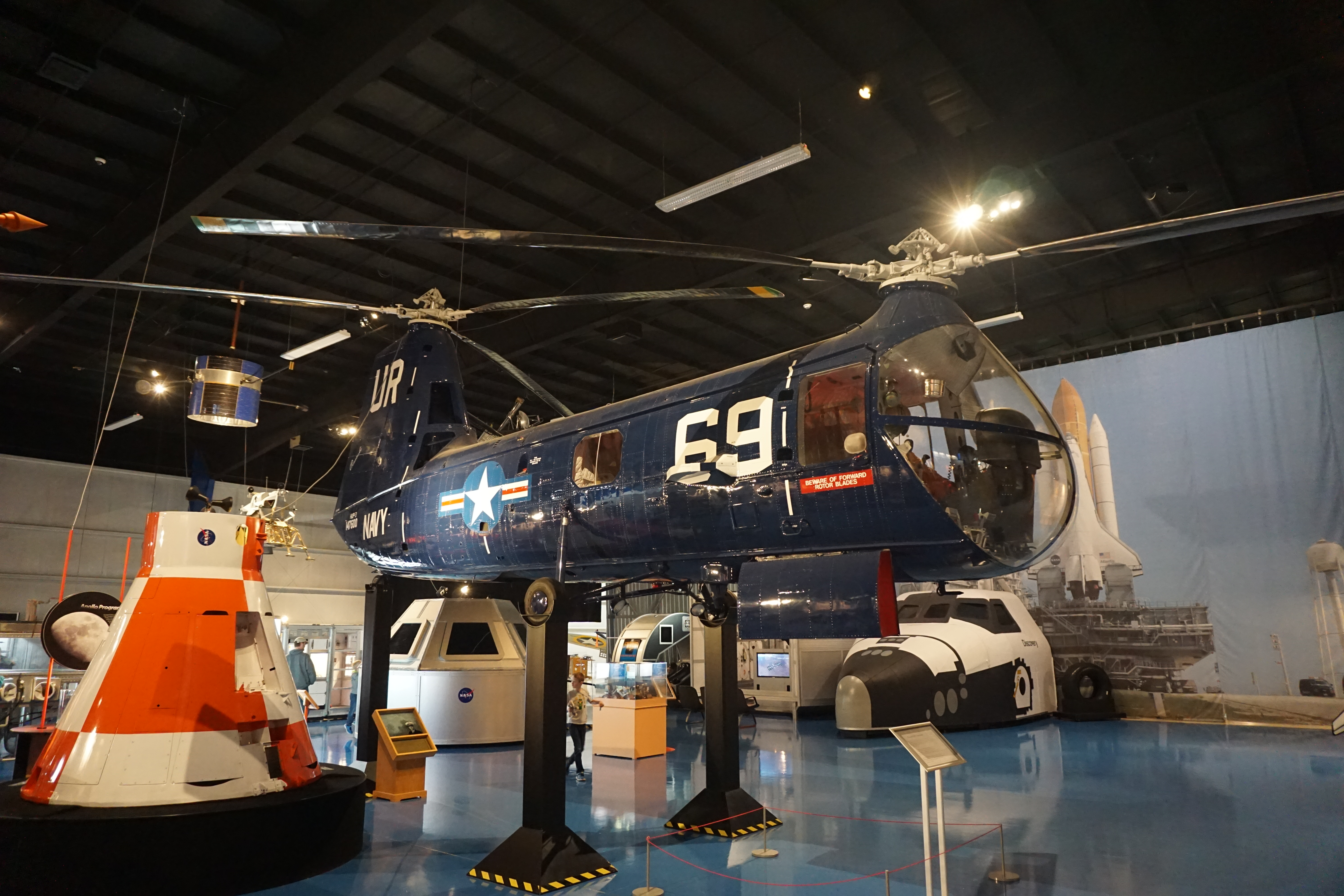 A Piasecki HUP-3 Retriever on display at the Air Zoo at Kalamazoo/Battle Creek International Airport in Portage, Michigan (United States).